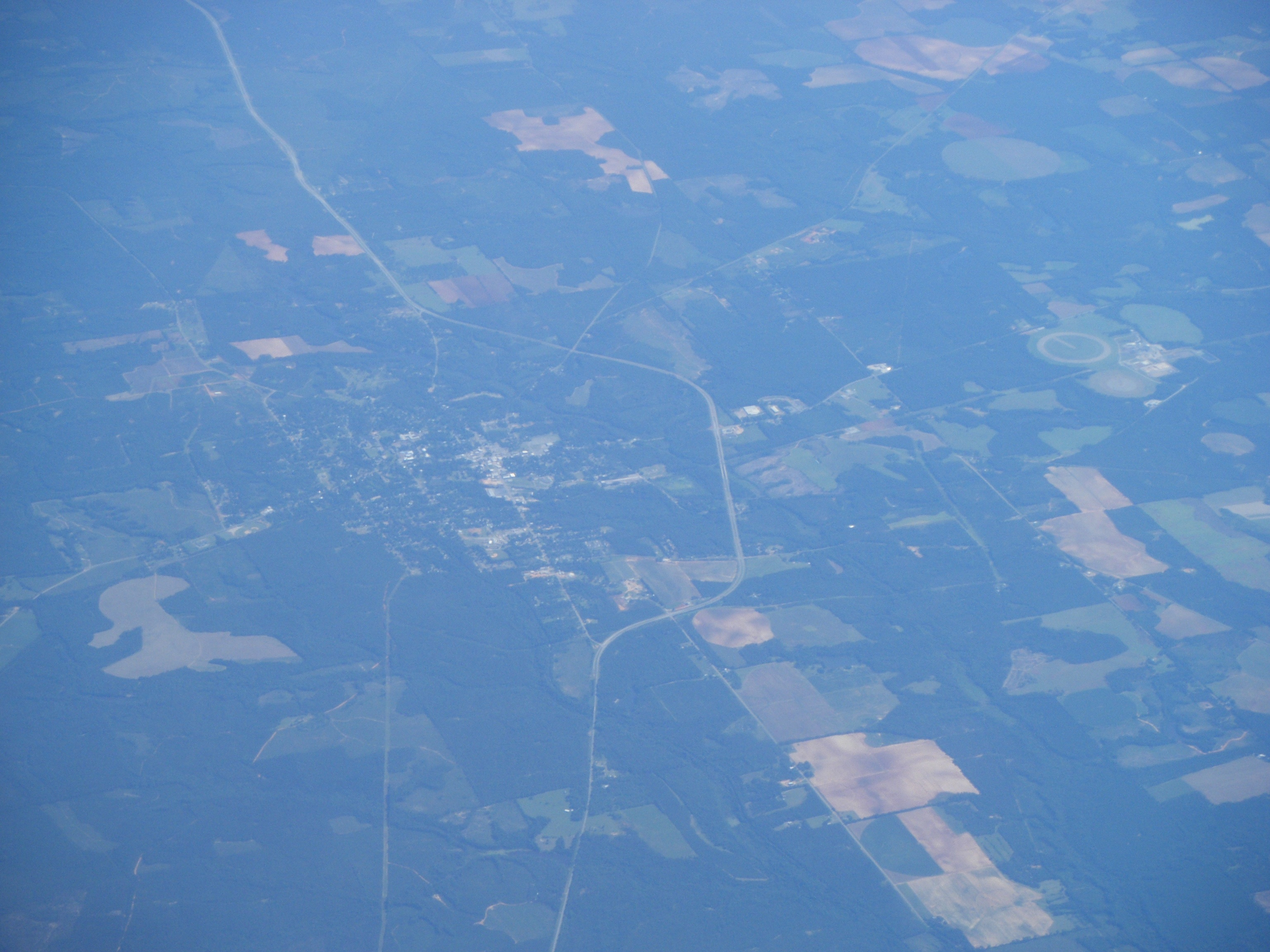 A view of Cuthbert, Georgia taken from an airplane